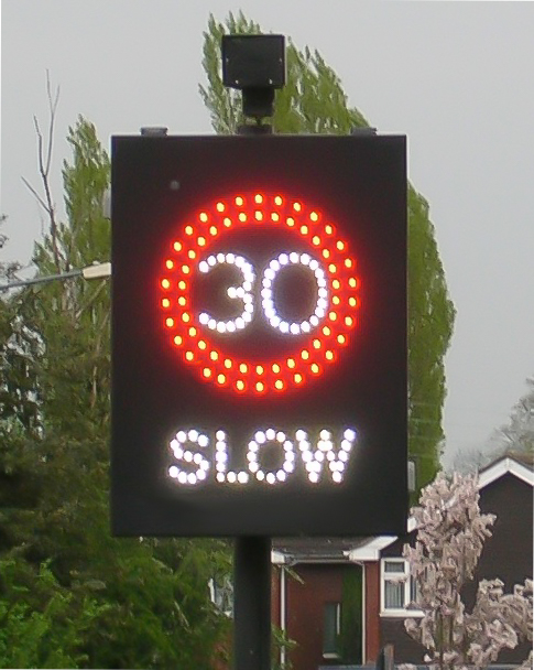 A vehicle activated sign (VAS) being used to enforce a 30 mph speed limit